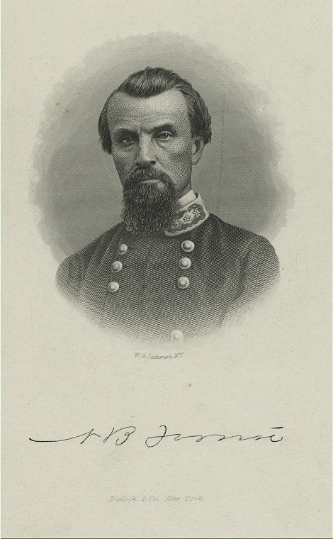 Nathan Bedford Forrest (1821 – 1877), from The Campaigns of Lieut.-Gen. N.B. Forrest, and of Forrest's Cavalry ... By Thomas Jordan, J. P. Pryor